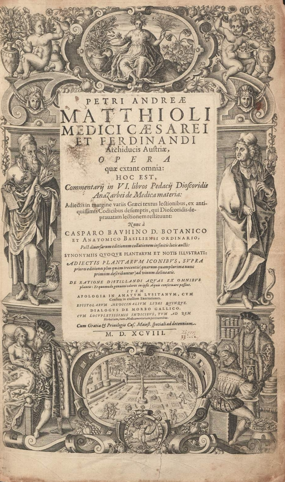 Title page of Bauhin's edition of the works of Matthioli